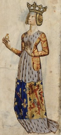 Beatrice of Burgundy